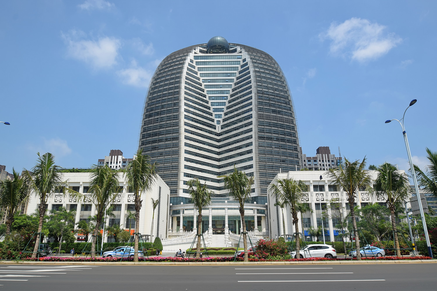 HNA Building / HNA Plaza (Hainan Airlines & HNA Group Headquarters), Haikou